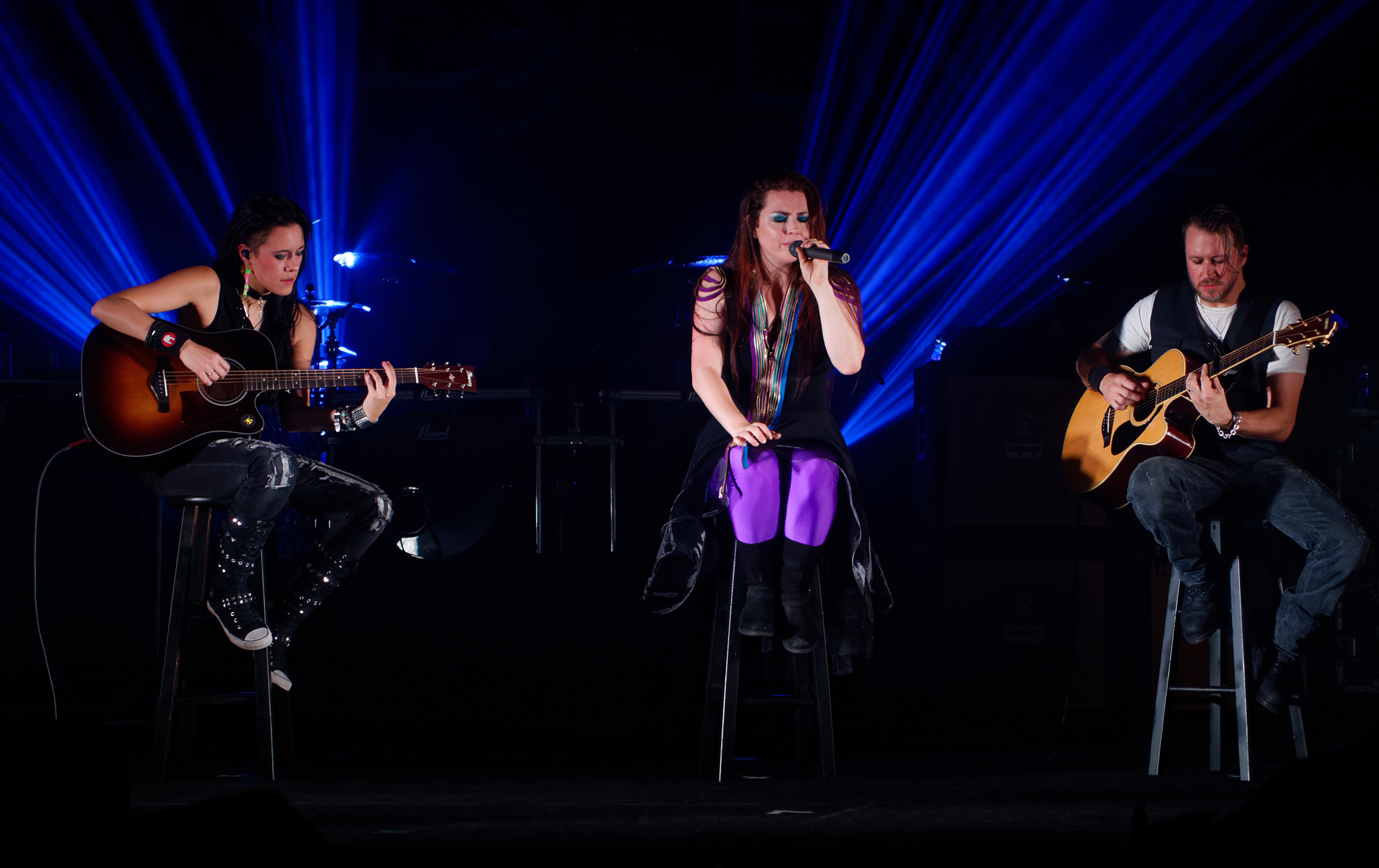 Evanescence performing live at The Wiltern theatre in Los Angeles California on Tuesday November 17th, 2015.